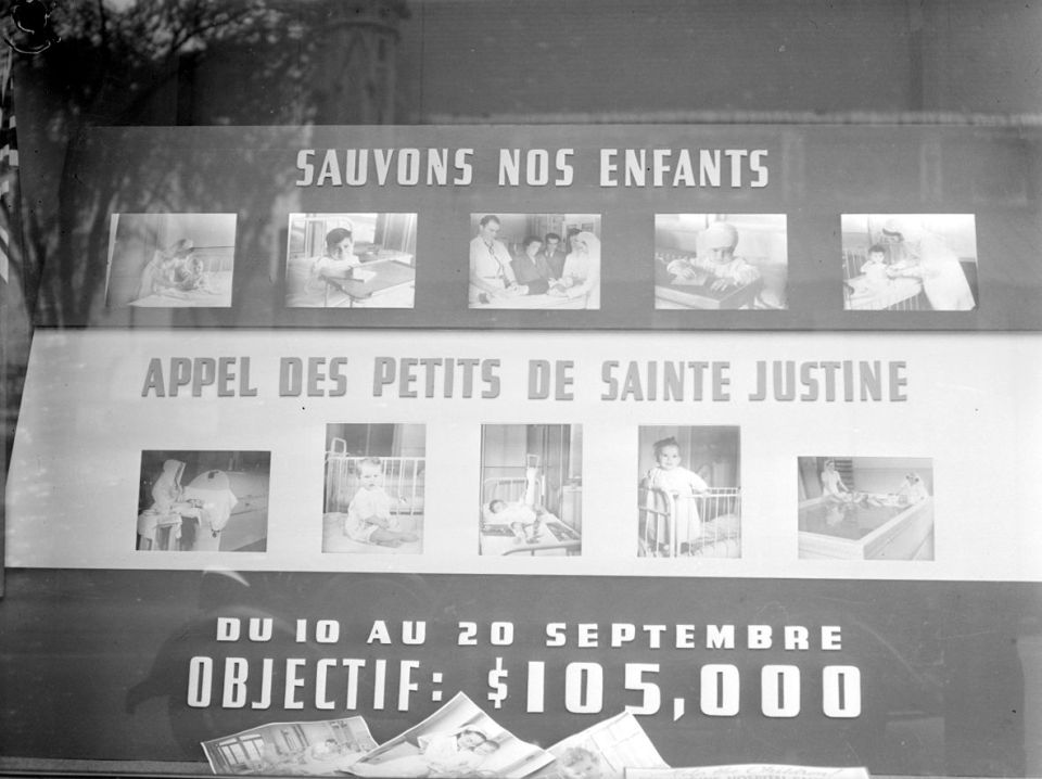 We see a poster of the Sainte-Justine Hospital fundraising campaign. With photographs of Conrad Poirier, this poster is in the shop window "Eaton's" located in 677, Sainte-Catherine Street West, Montreal.